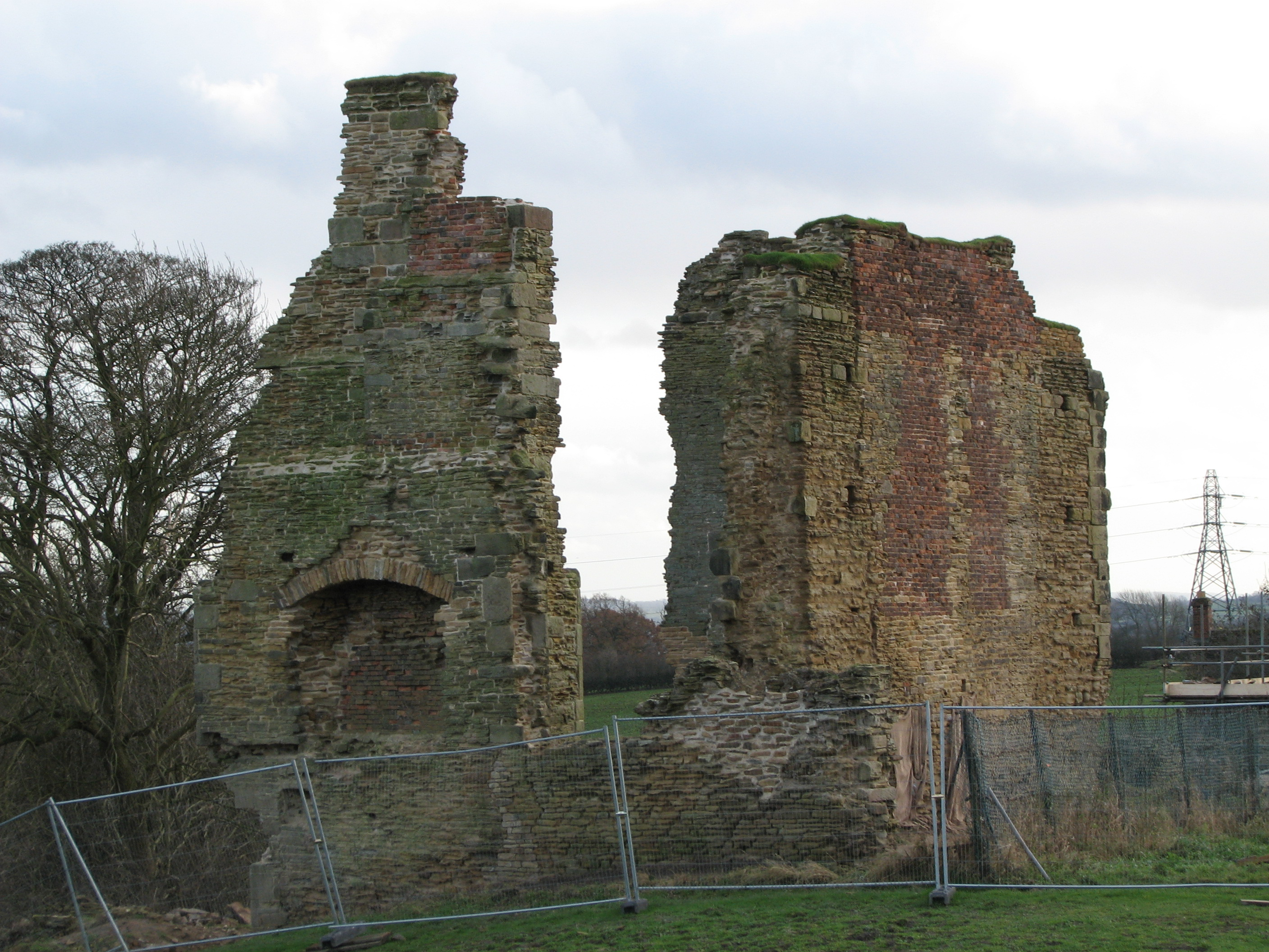 Codnor Castle ruins, view from NW.